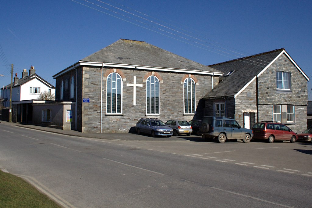 Delabole Methodist Church This is one of at least three nonconformist churches of different denominations which were built at Delabole in the 19th century. The others have since closed as the denominations merged under the banner of the United Methodists.